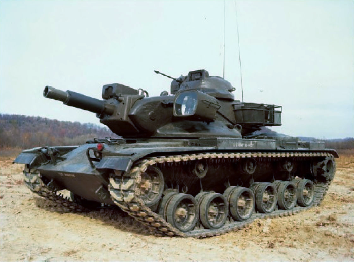 M60A1E1 pilot tank